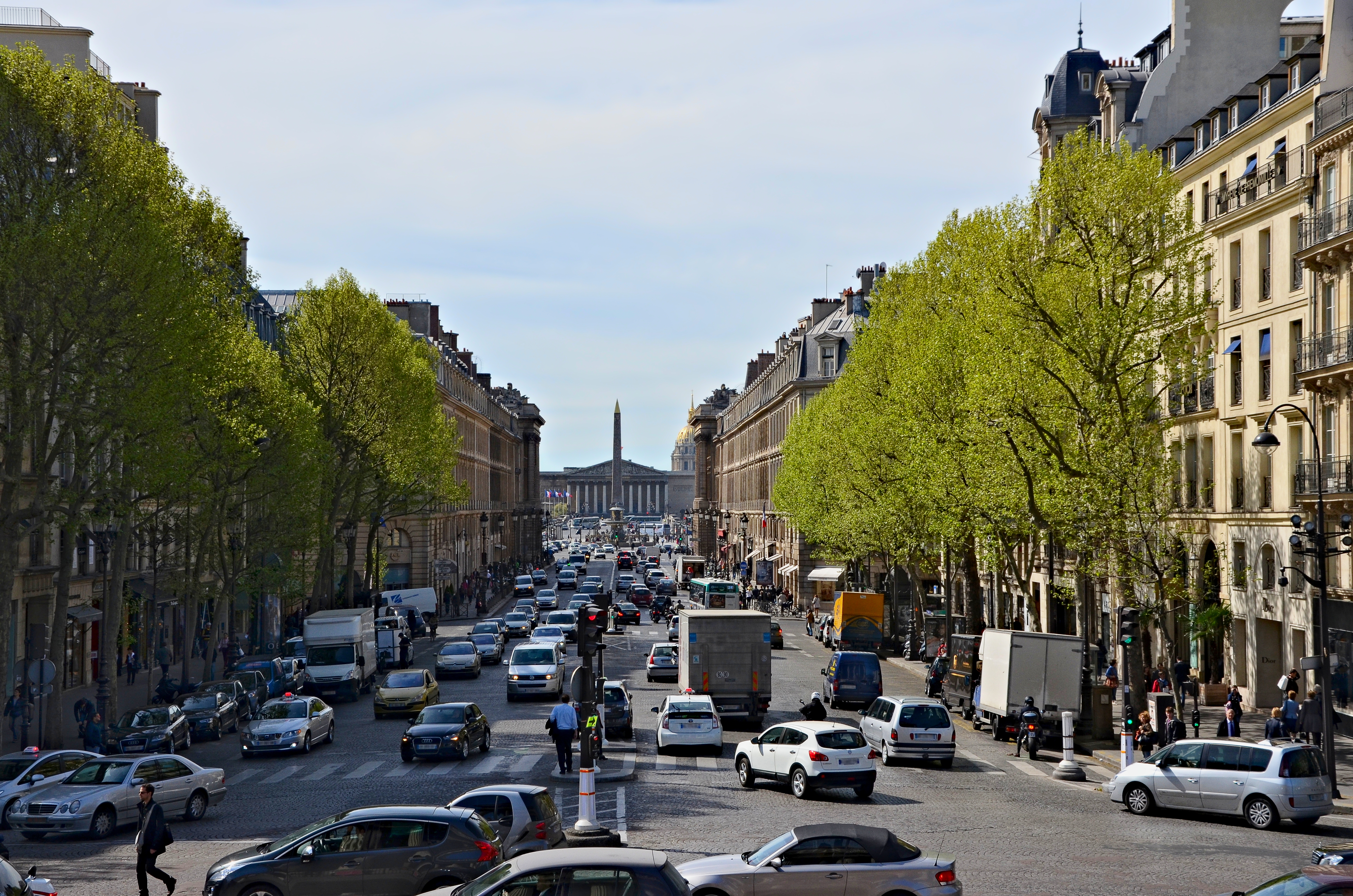 The rue Royale, as seen from the church of la Madeleine, heading S-SW, Paris (8th arr.)